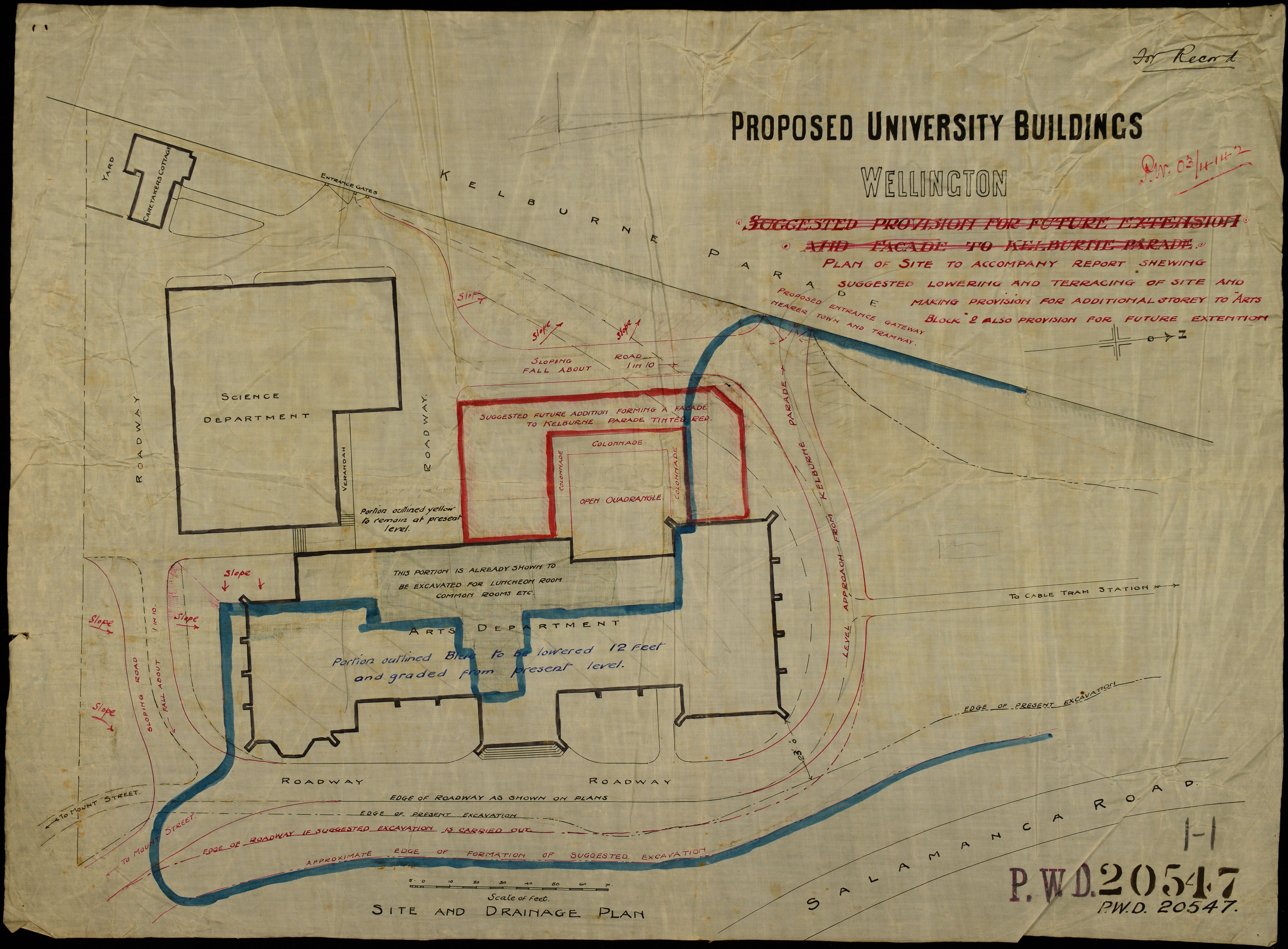 On August 27 1904, the foundation stone for the University of Victoria's first building was laid. Even though the University (then known as Victoria College) was set up in 1897, there was no campus for the organisation and classes were held in numerous buildings across Wellington. The eventual siting of the College in Kelburn was the result of an offer from wealthy Wairarapa sheep farmer Charles Pharazyn. Governor Lord Plunket laid the foundation stone. The plan presented here is a Public Works Department plan for 'Proposed Buildings for Victoria College', from 1903. A second plan (not shown here) notes the approach to the Kelburn campus from Salamanca Road, and designs for what is now known as the Hunter Building. From its inception the Public Works Department (from 1960 the Ministry of Works) produced plans and maps of its work. The plans held at Archives NZ include railways, buildings, roads, and other works such as plant and machinery. This plan as well as other plans from the Public Works Department can be seen in the Wellington Reading Room. Reference: ACHL 22541 W5 676 20547 part 1 Material From Archives New Zealand